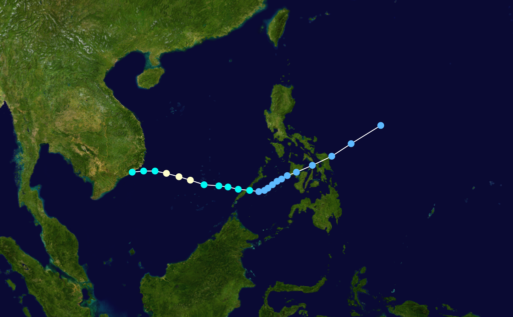 Typhoon Tess 1988 track. Uses the color scheme from the Saffir-Simpson Hurricane Scale.